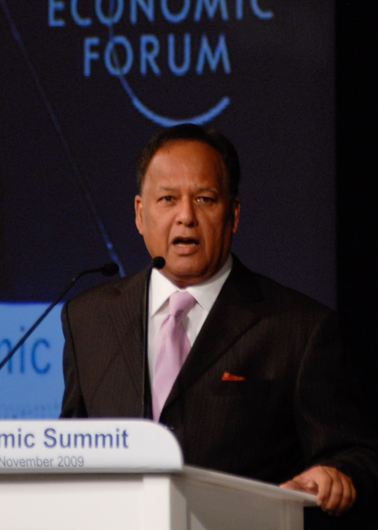 Photograph (Cropped) of Sri Lankan Politician and Civil Servant,Dr.Sarath Amunugama (සරත් අමුනුගම)